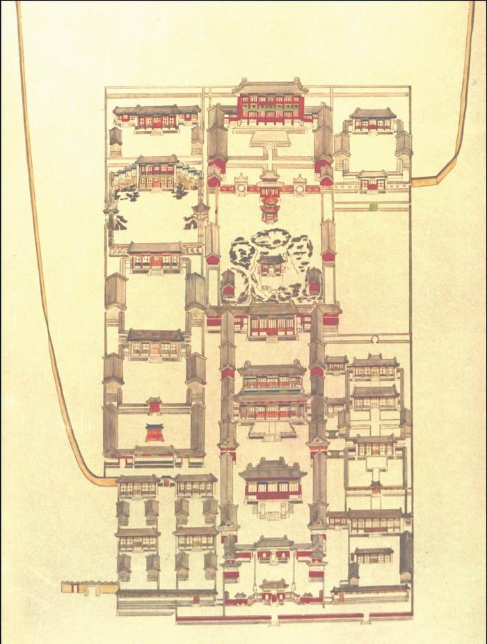 map of Wanshou Temple